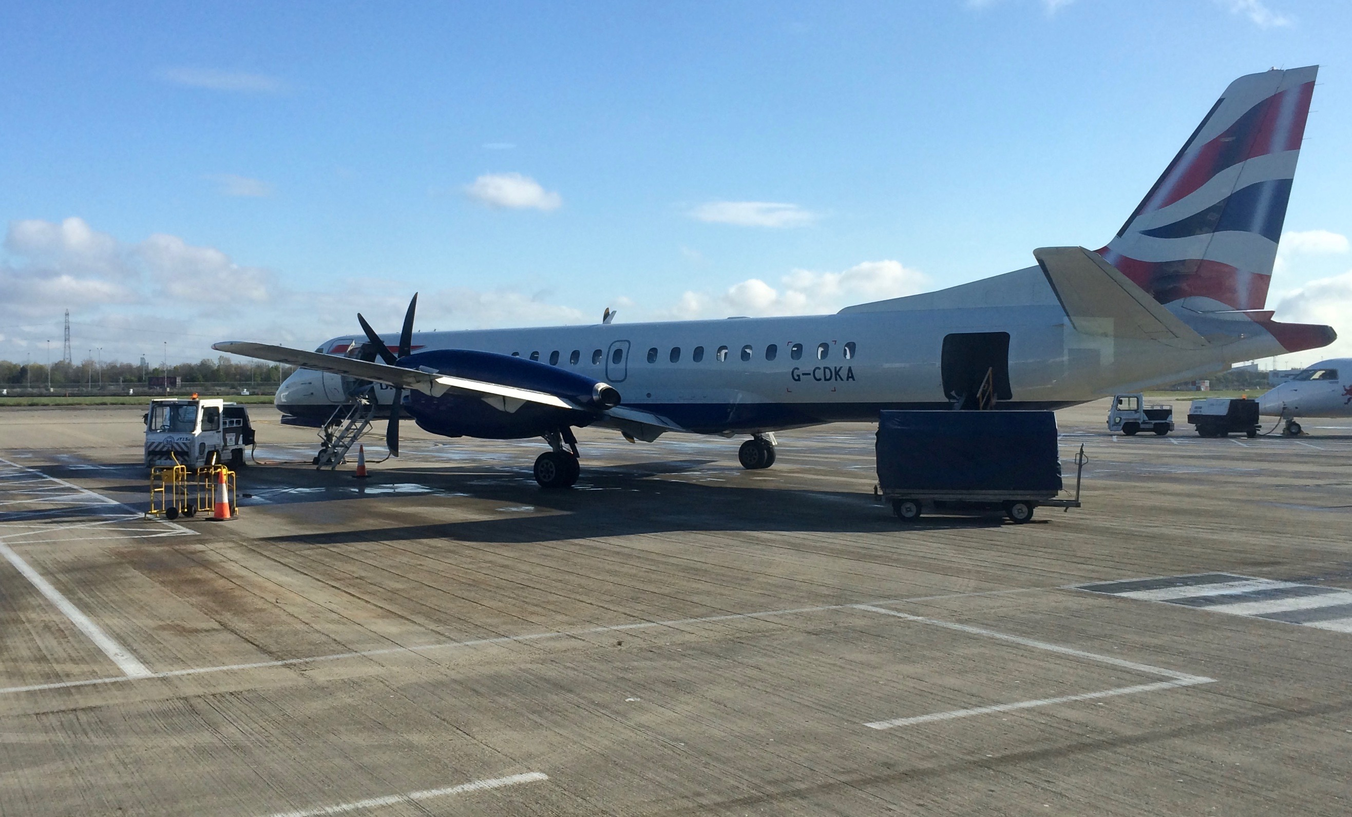 Aircraft ground handling of a Saab 2000 (BA CityFlyer) while parked at a gate at London City Airport.